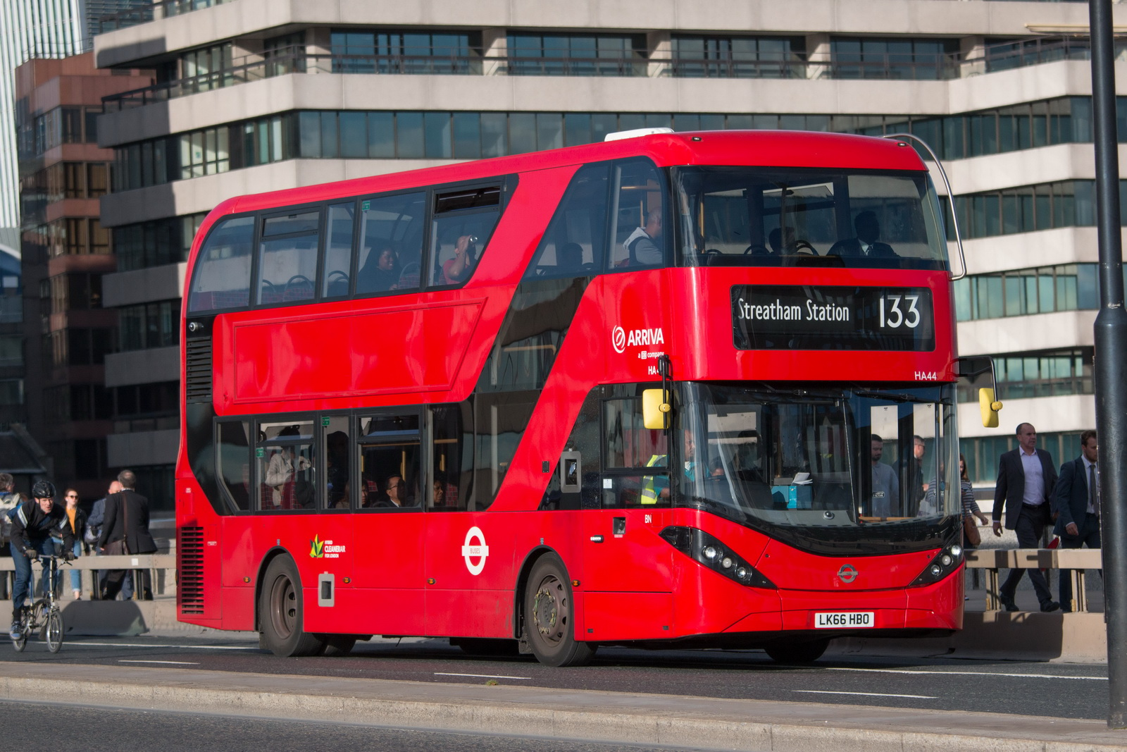 Arriva London Alexander Dennis Enviro400H City on route 133 on London Bridge in September 2017